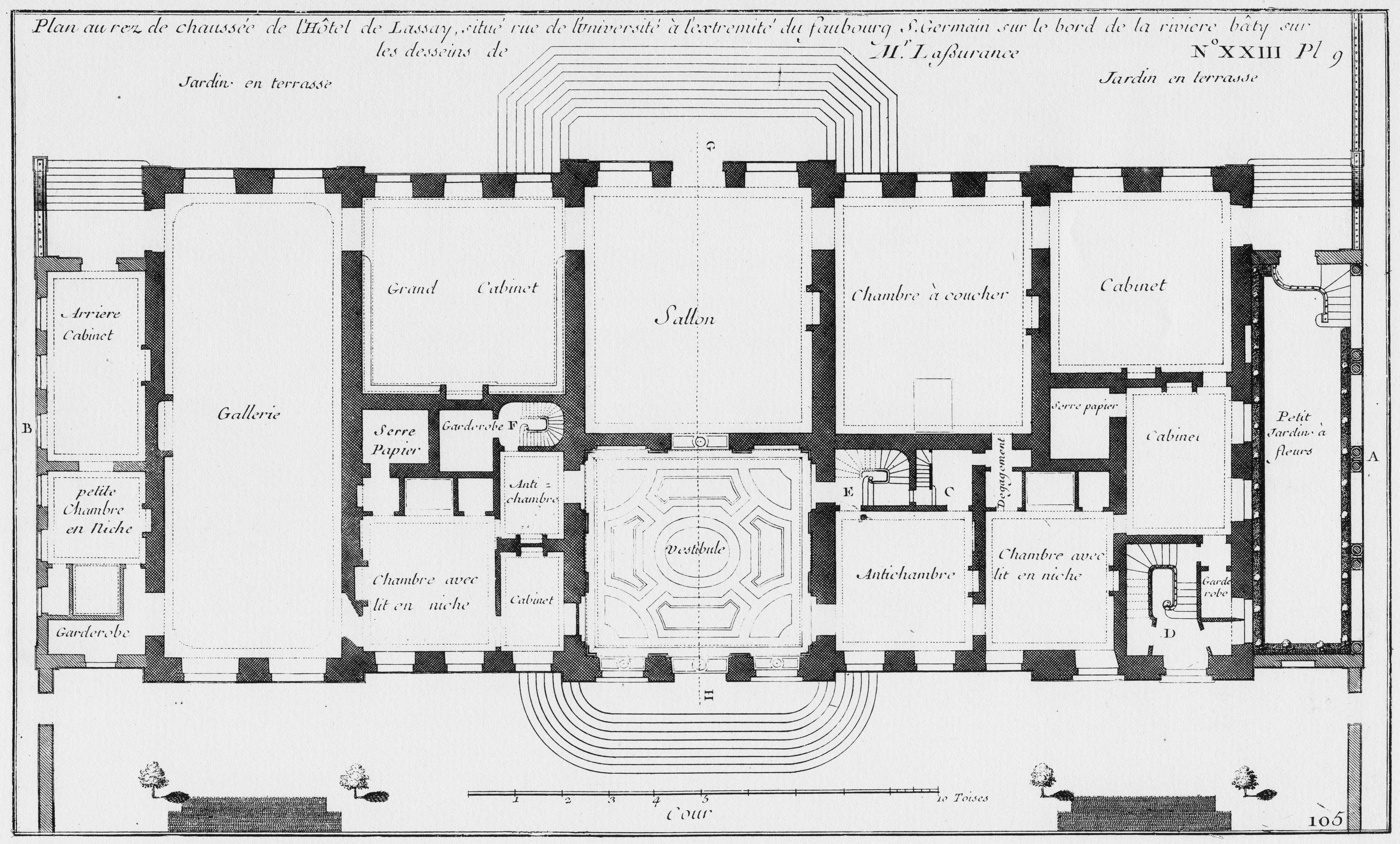 Plate 9. The Hôtel de Lassay in Paris: plan of the ground floor. From Architecture françoise, Tome 1, Livre 2, Chapitre 23 (following p. 272 of the 1904 reimpression). For Blondel's discussion of this plate (in French), see p. 270 of tome 1 (at Gallica).